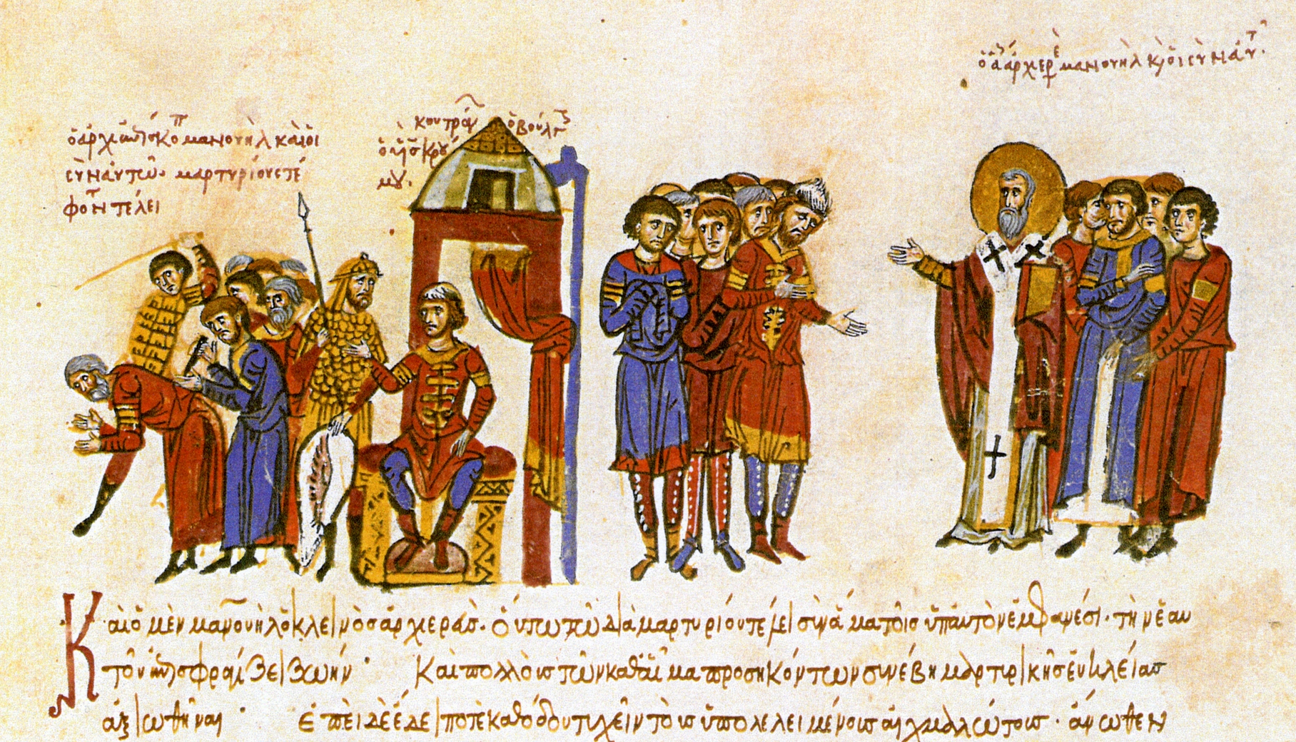 Khan Omurtag watches the execution of Bishop Manuel, from the Chronicle of John Skylitzes